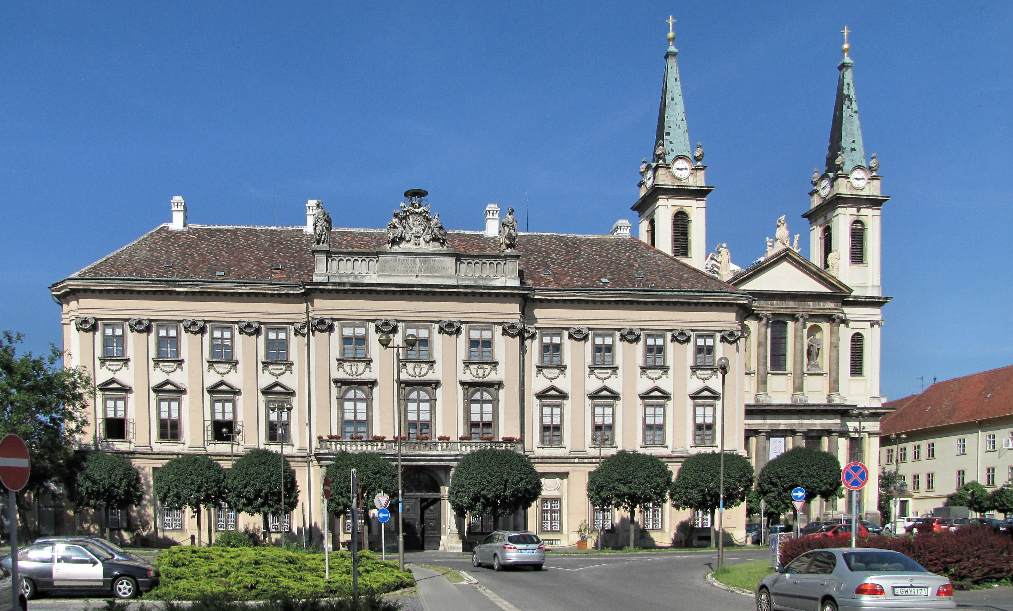 Szombathely, episcopal palace and cathedral.